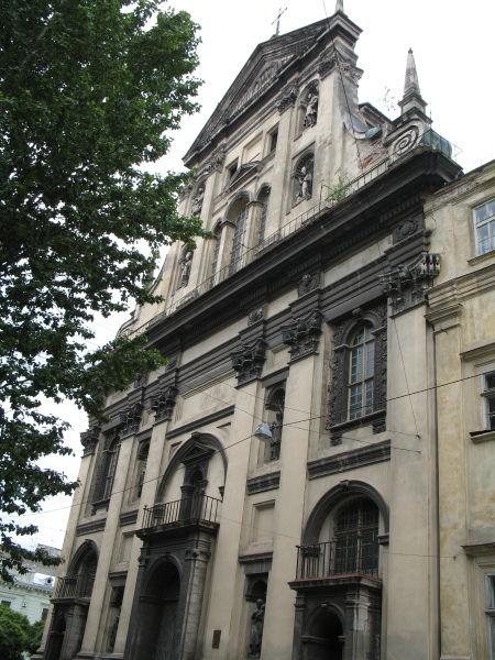 Iesuit monastery, Lviv